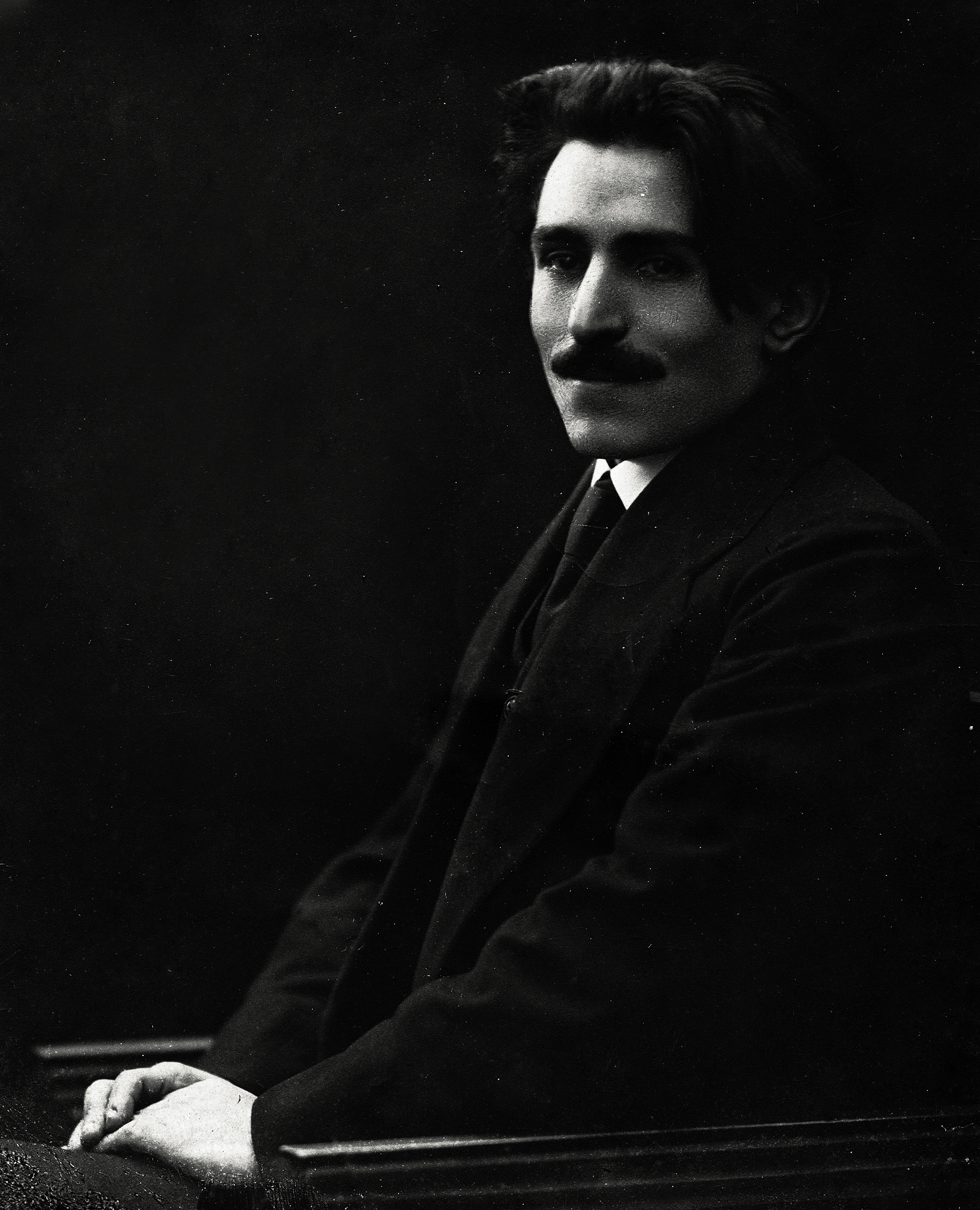 Vahan Teryan